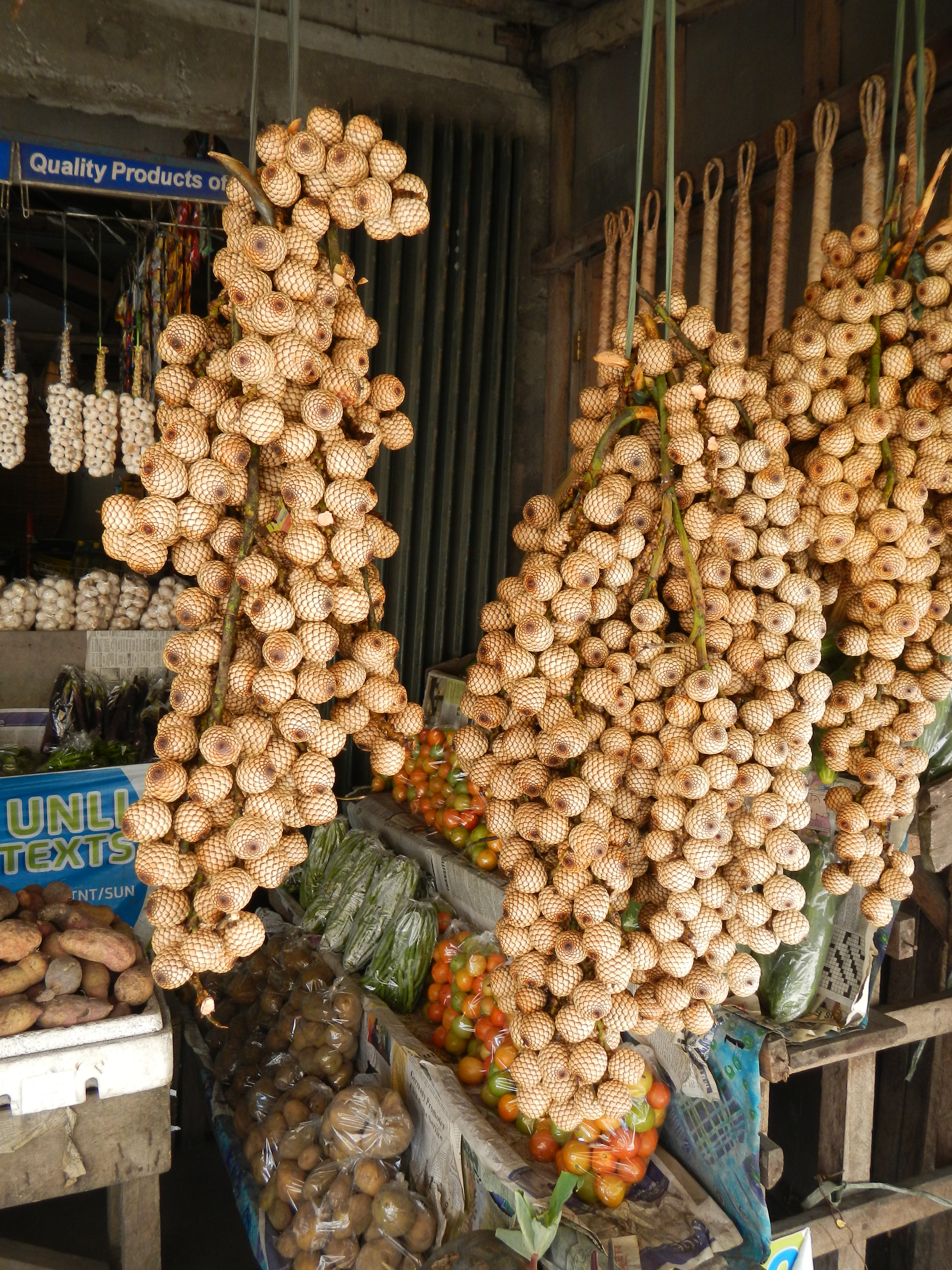 UploadWizard photos -- (General description, 3-dimension angle by angle photography of this town, church & landmarks) -- District Highway Boundary S00852LZ K0209+ 896 Agribank, Pamilihang Bayan ng Santa Fe (Public market), Balete Pass Tourism Complex (is composed of a) Chinese Shrine, b) Japanese Shrine and Dalton Pass Pass[1] with its Dalton Pass View Deck) in --- Barangay Poblacion, Santa Fe, Nueva Vizcaya [2] [3] located along Daang Maharlika or Cagayan Valley Road or Pan-Philippine Highway[4] the only passageway that links the entire North East Luzon to Metro Manila and Central Luzon. Cagayan Valley [5]).